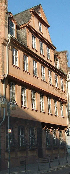 Birthplace of Goethe